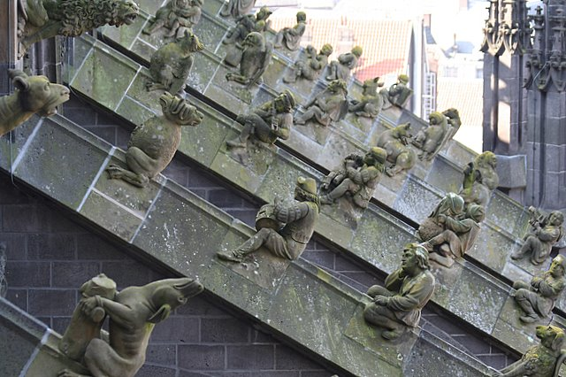 flying buttresses of Saint John's cathedral in 's-Hertogenbosch, Holland, with some of the 96 figures riding it.